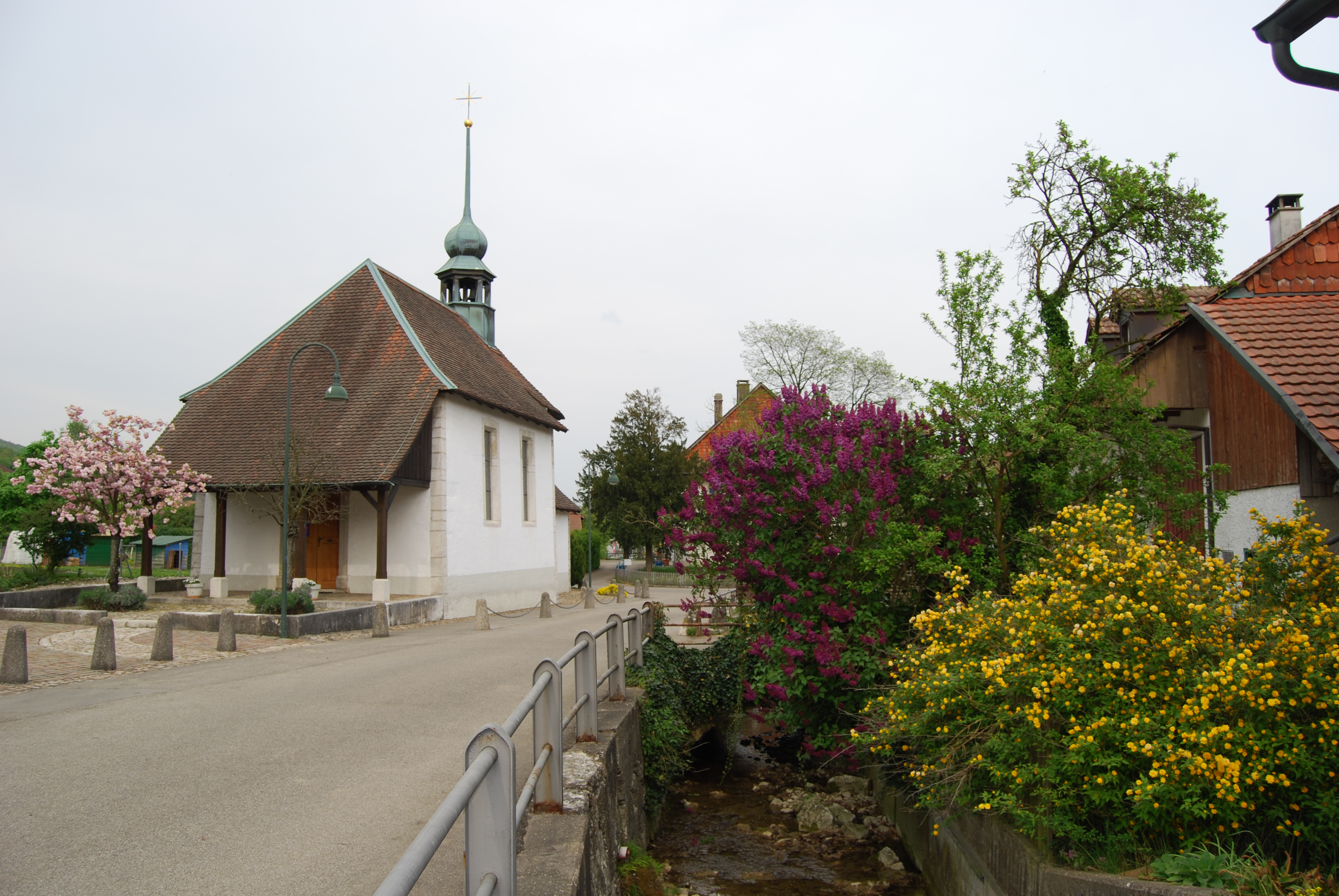 Chapel St. Laurentius at Rickenbach, canton of Solothurn, Switzerland